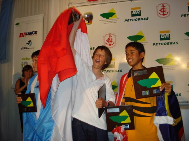 Sinclair recibiendo su premio de Campeón Mundial